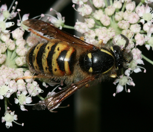 Dolichovespula norwegica (female)